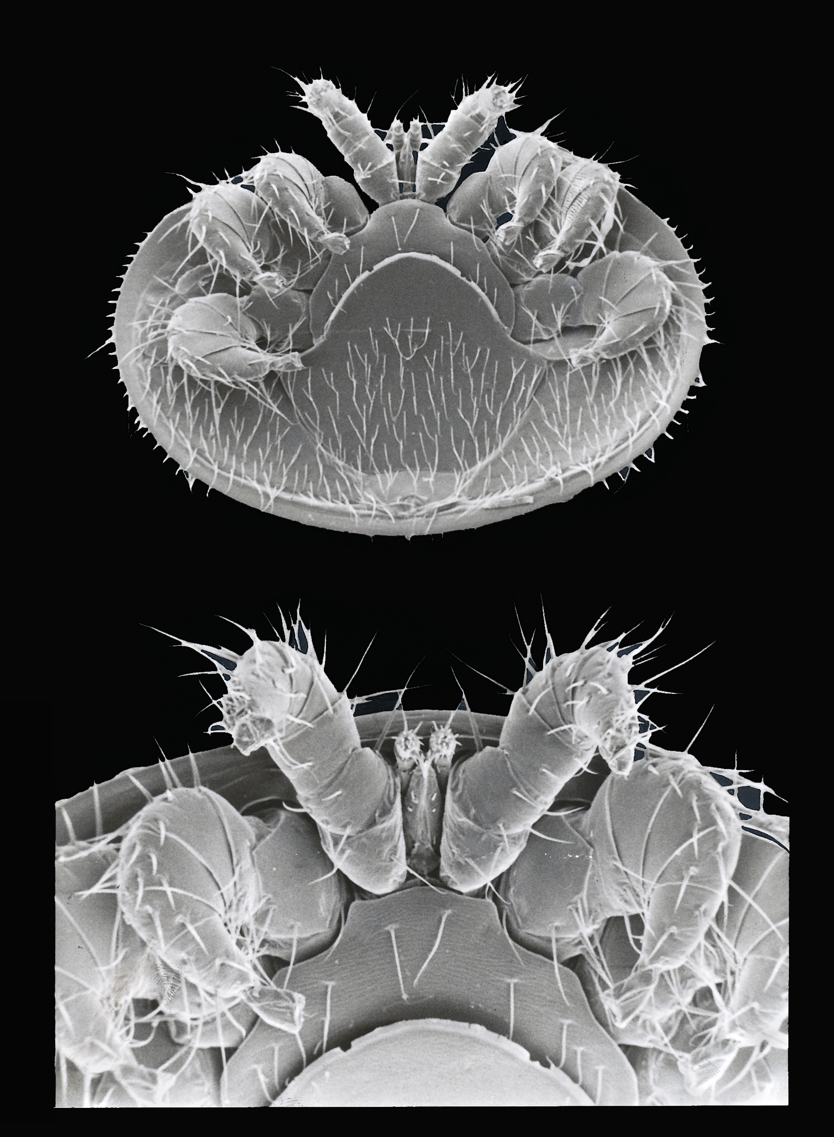 Varroa destructor, ectoparasite of Apis mellifera, the Western (or European) Honeybee, in the scanning electron microscope. Specimen collected around 1984 in Luxembourg.